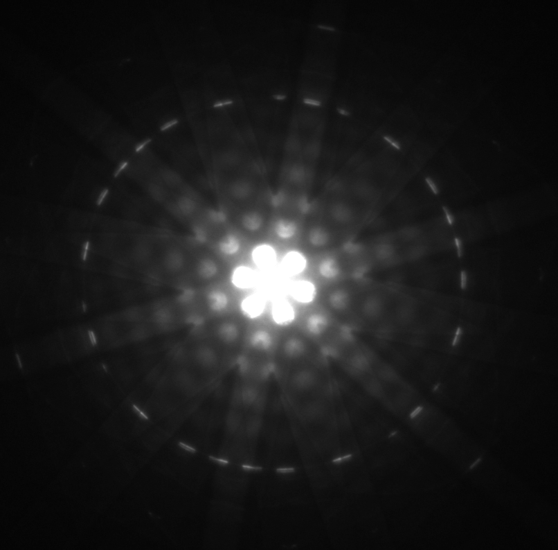 Kikuchi pattern of Si single crystal